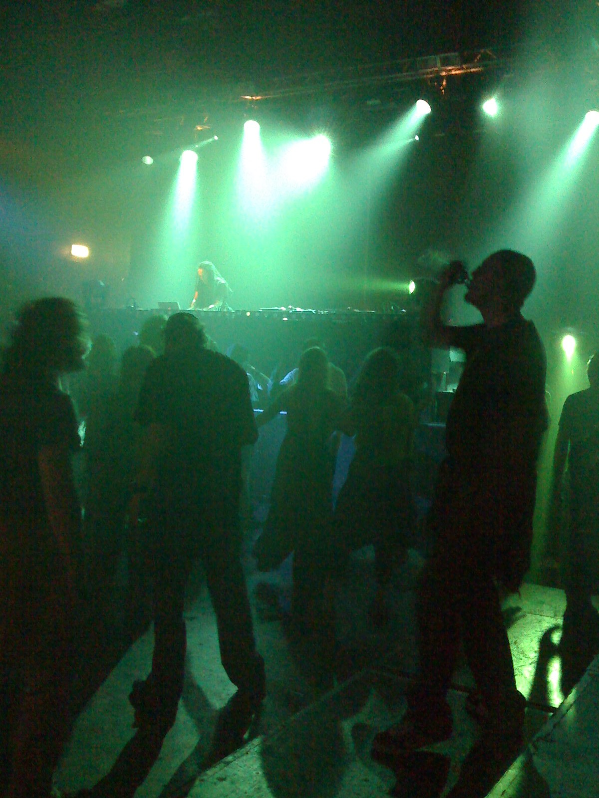 Rebeltronics party in Tivoli de Helling, Utrecht, NL. Bong-Ra is hardly reckognisable.